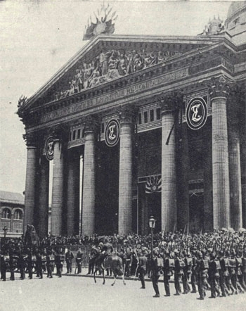 Transfer of Zola's ashes to the Pantheon.